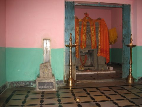 Vijaya Dasaru Katte with Mohan Dasaru at Chippagiri